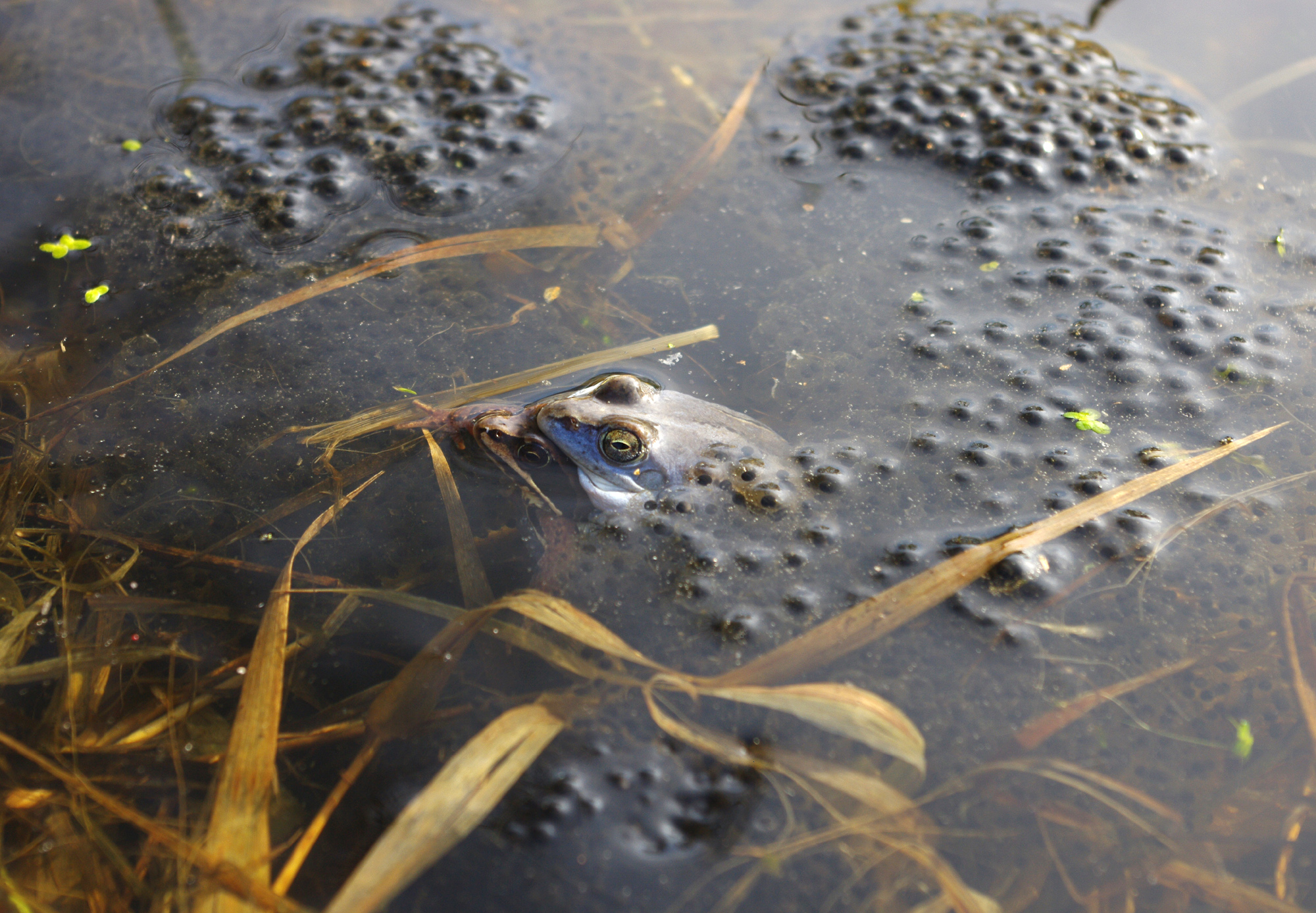 Male and female Moor Frog (Rana arvalis) in amplexus, showing up between spawn clumps of other conspecifics.